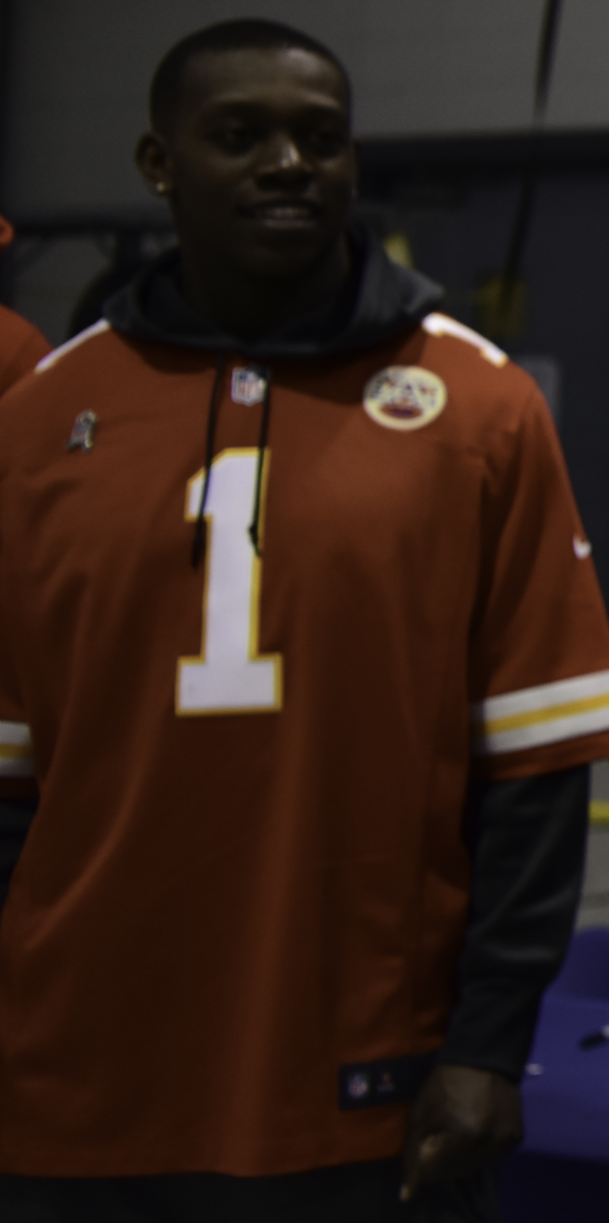 Brigadier General John Nichols accepts a game ball during a visit from the Kansas City Chiefs at Whiteman Air Force Base, Missouri, Nov. 6, 2018. The meet and greet was part of the National Football League’s Salute to Service, which is a year-round effort to honor, empower and connect the nation’s service members, veterans and their families. (U.S. Air Force photo by Airman Parker J. McCauley)